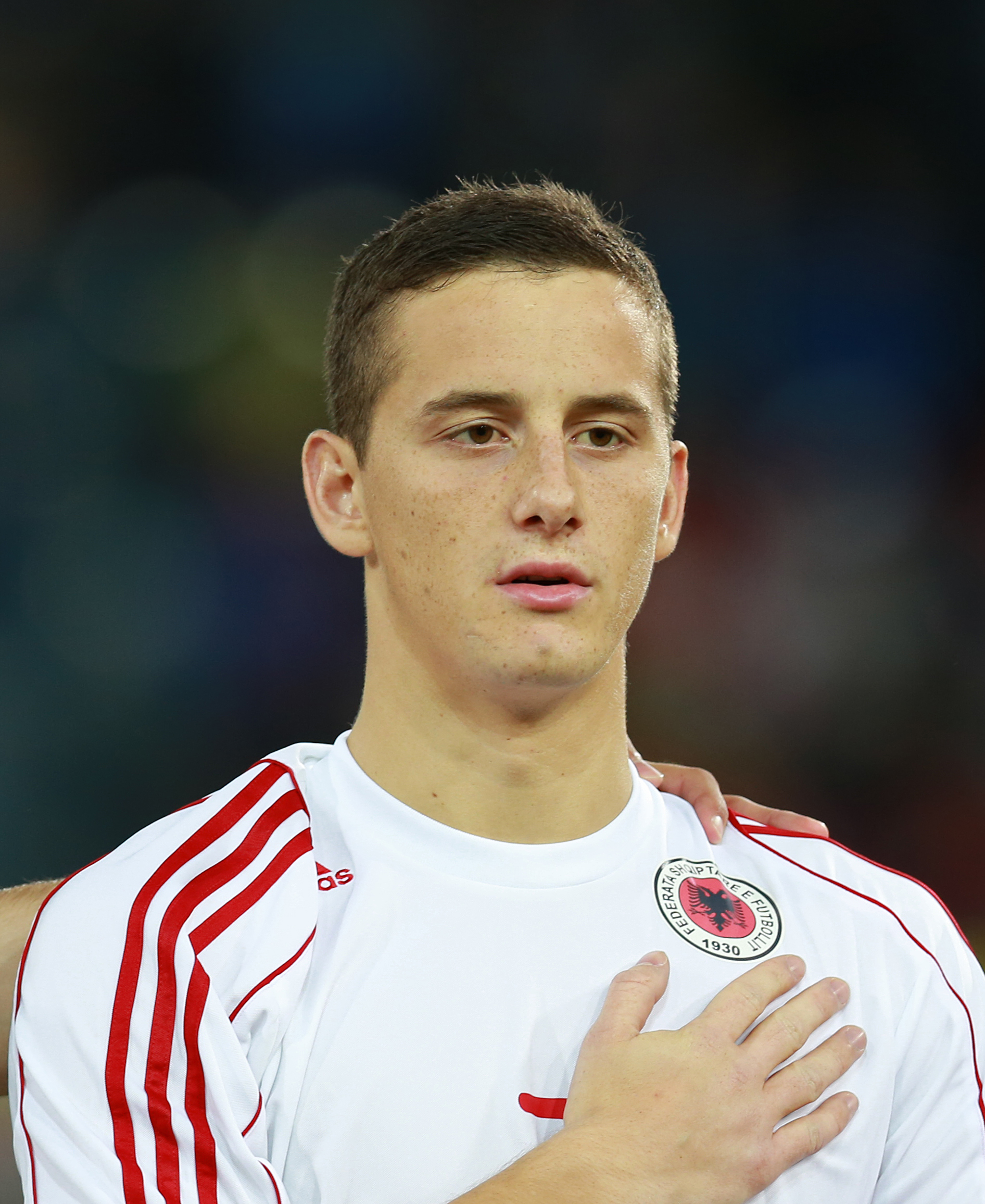 Herolind Shala at national under-21 football game Albania vs. Austria in Graz, UPC Arena, 5. March 2014